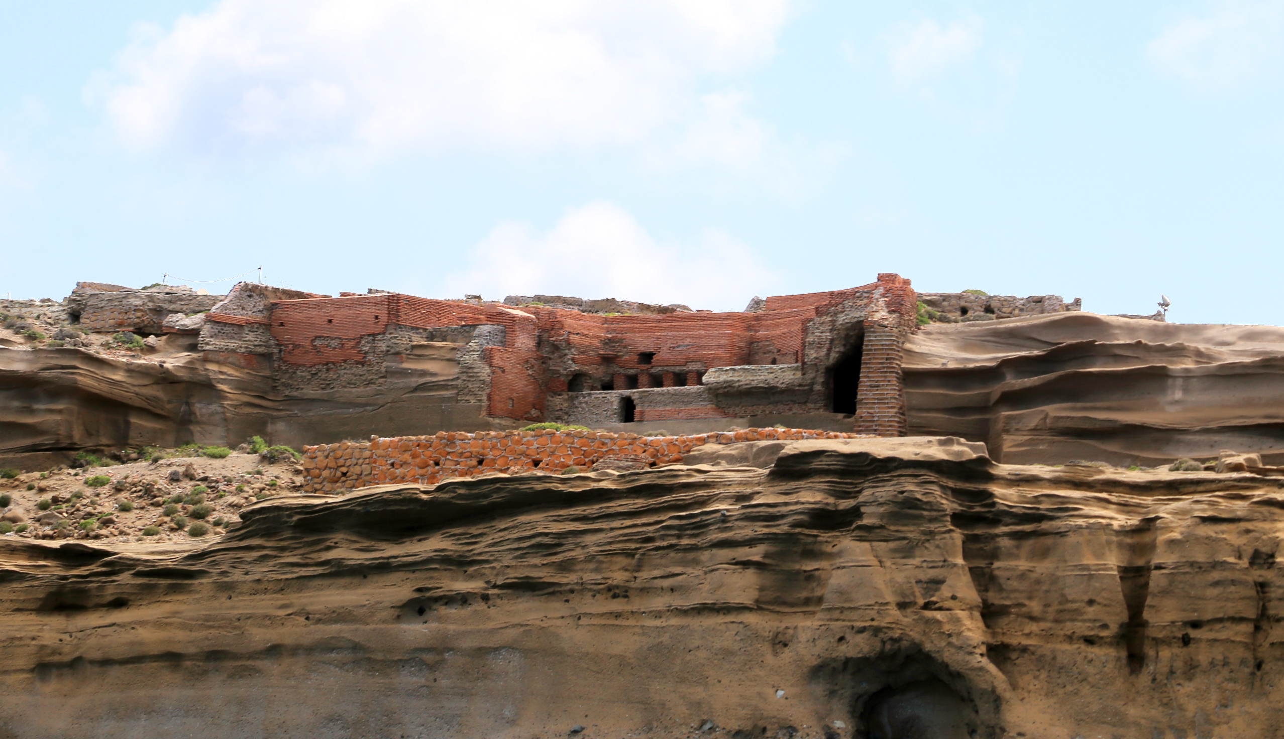 Ventotene (island)